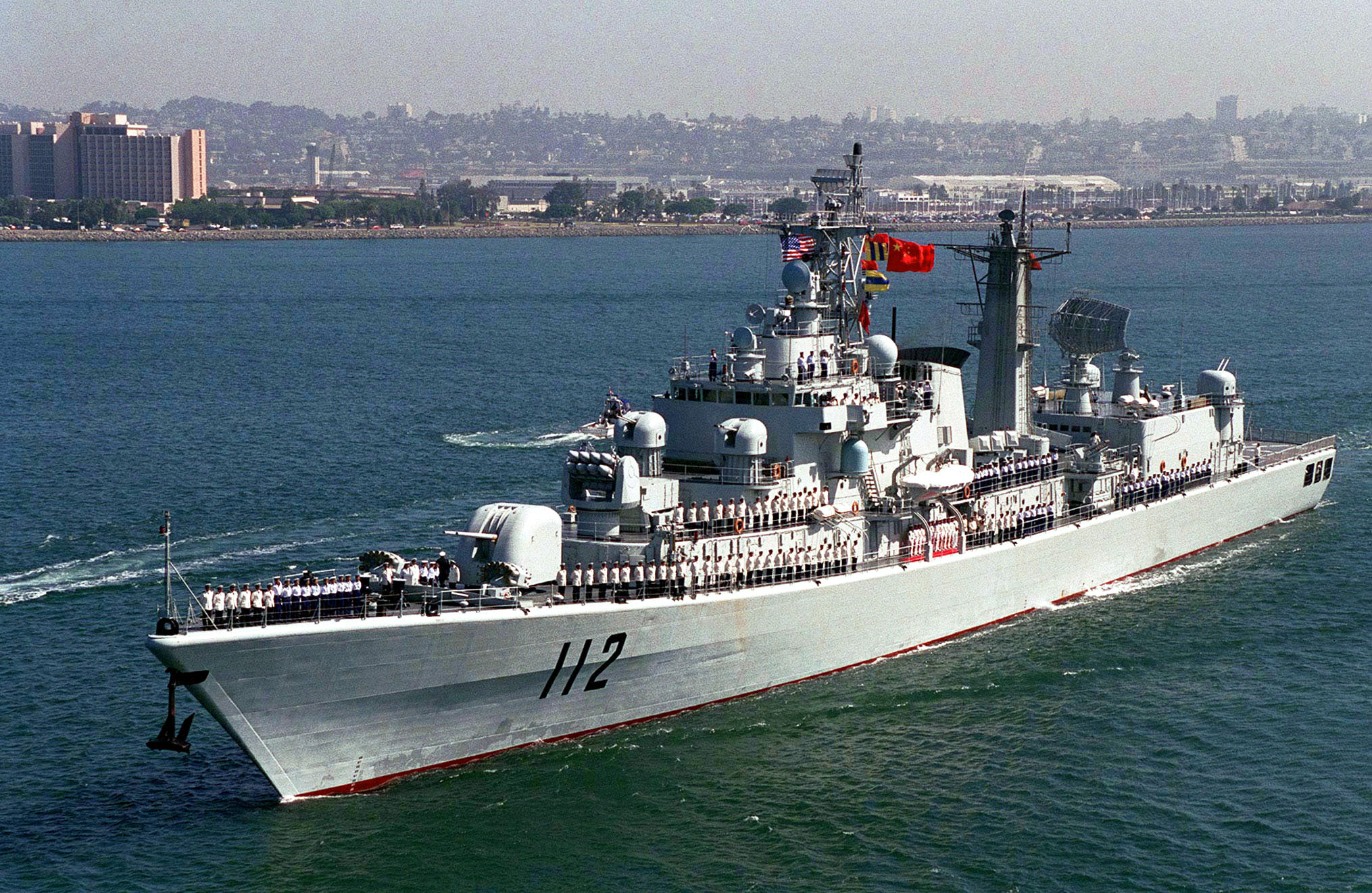 The Chinese Luhu Class Destroyer, HARIBING (DDG 112), departs San Diego, California, with crew manning the rails. This marked the first time Chinese warships have crossed the Pacific and visited the Continental United States. The Luhu Class Destroyer HARIBING (DDG 112), Luda II Class Destroyer, ZHUHAI (DDG 166), and a supply ship, the Fusu Class, NANYUN (AOR/AK 953) (ZHUHAI and NANYUN not shown), stopped at Naval Station, North Island, San Diego, California.